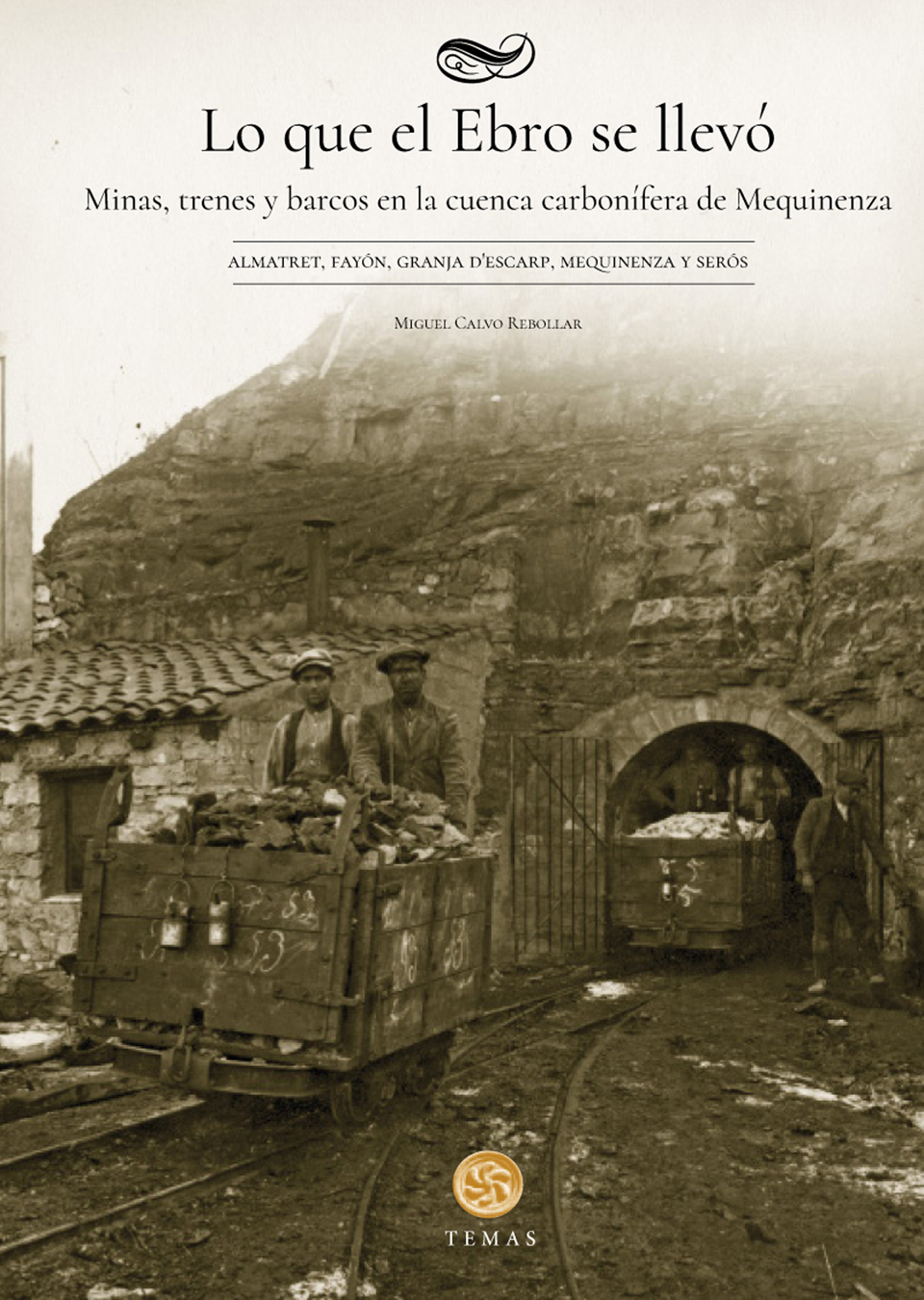 Book cover of the Spanish book Lo que el Ebro se llevó. Mines, trains and ships in the coalfield of Mequinenza. Almatret, Fayón, Granja d'Escarp, Mequinenza and Serós.